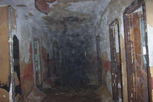 Inside the Glenn Dale Hospital